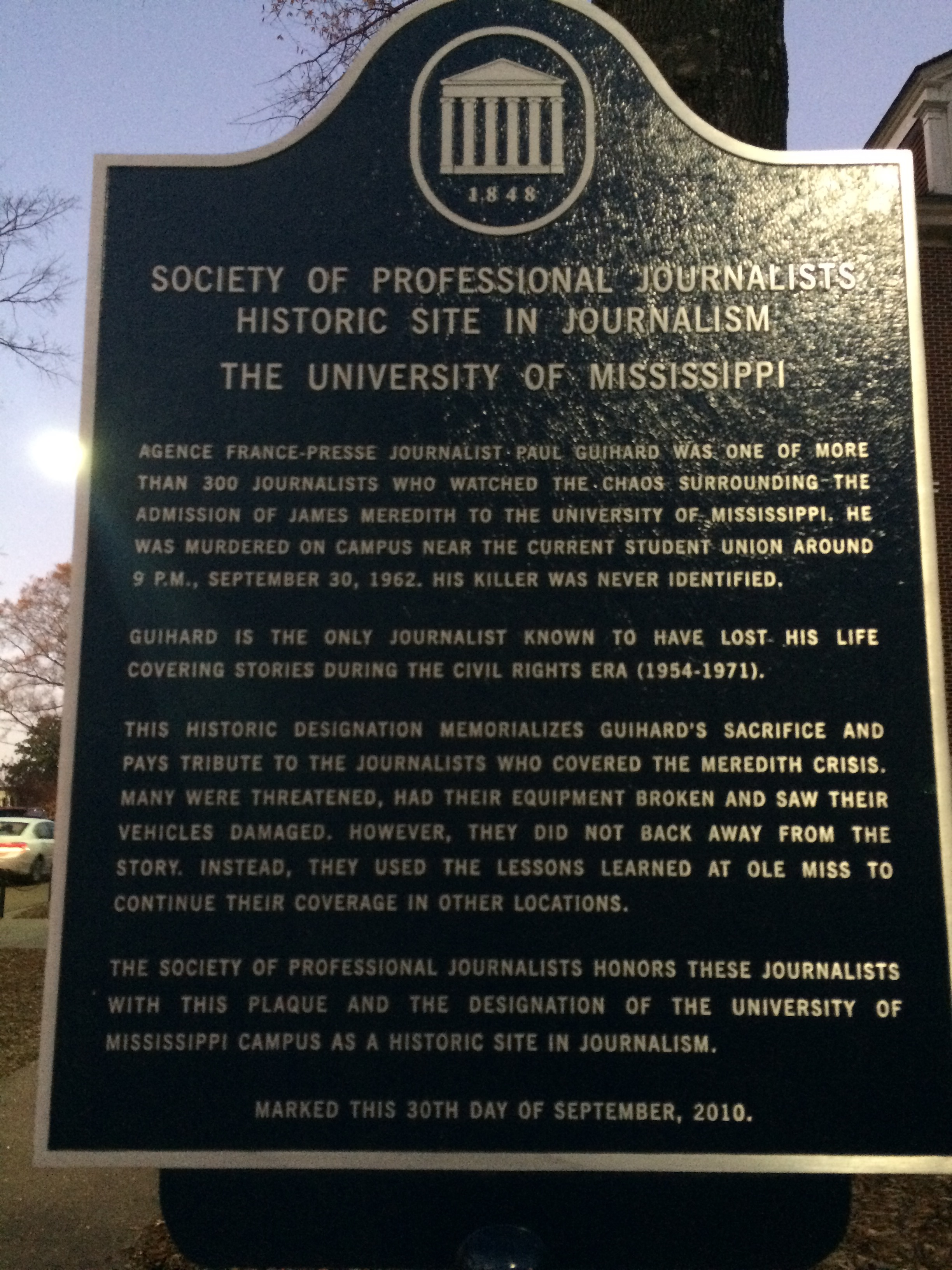 A plaque outside the Meek School of Journalism and New Media declaring the Ole Miss campus declaring it a historic site in journalism by the Society of Professional Journalists.